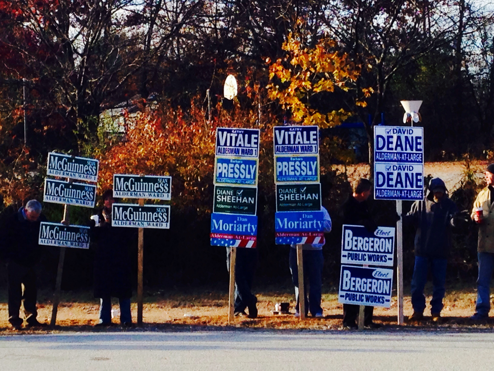 Campaign Supporters with candidate placards outside the Ward 1 polling station in Nashua, New Hampshire